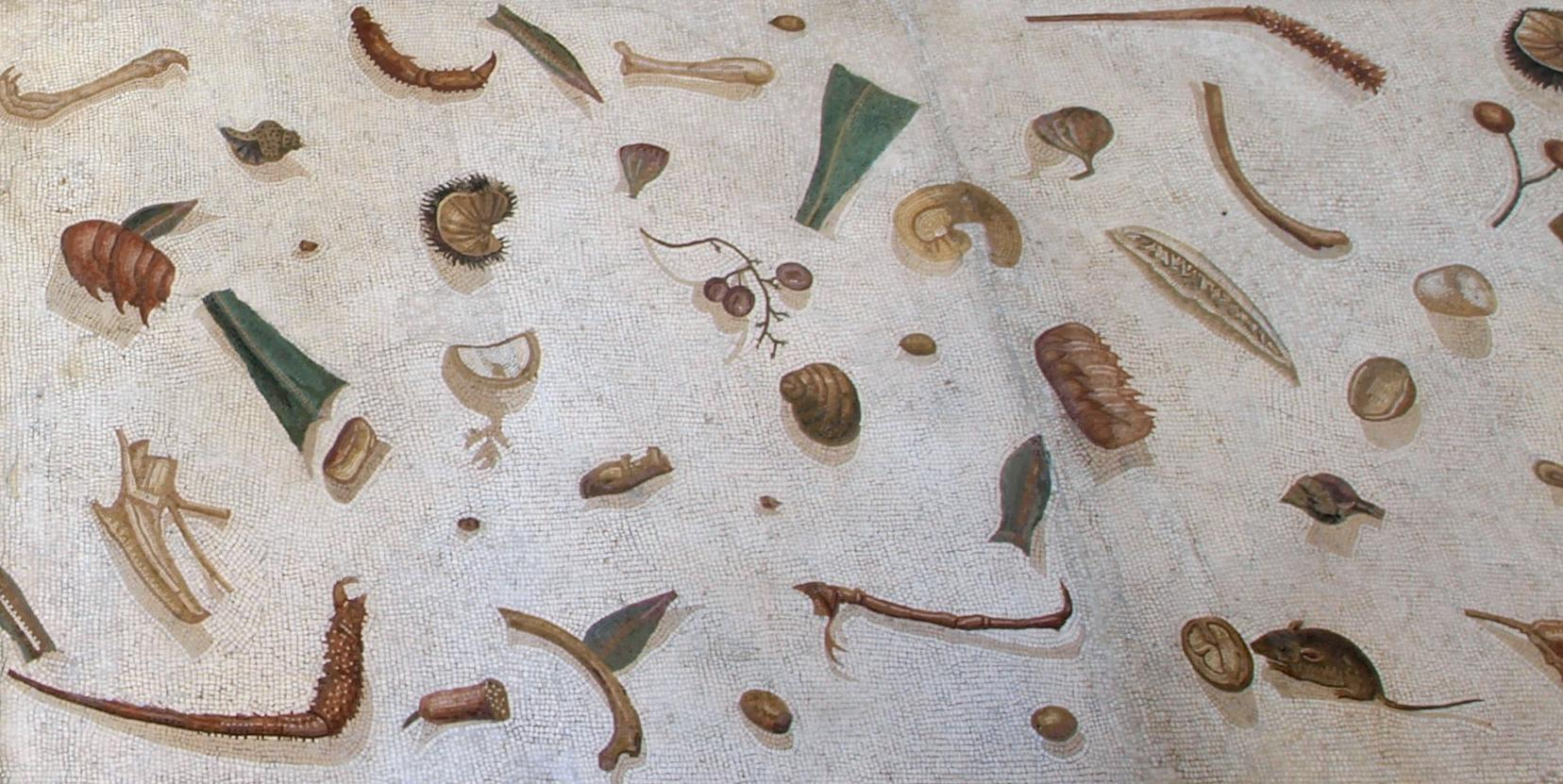 Part of the messy floor mosiac at the Vatican Museum.